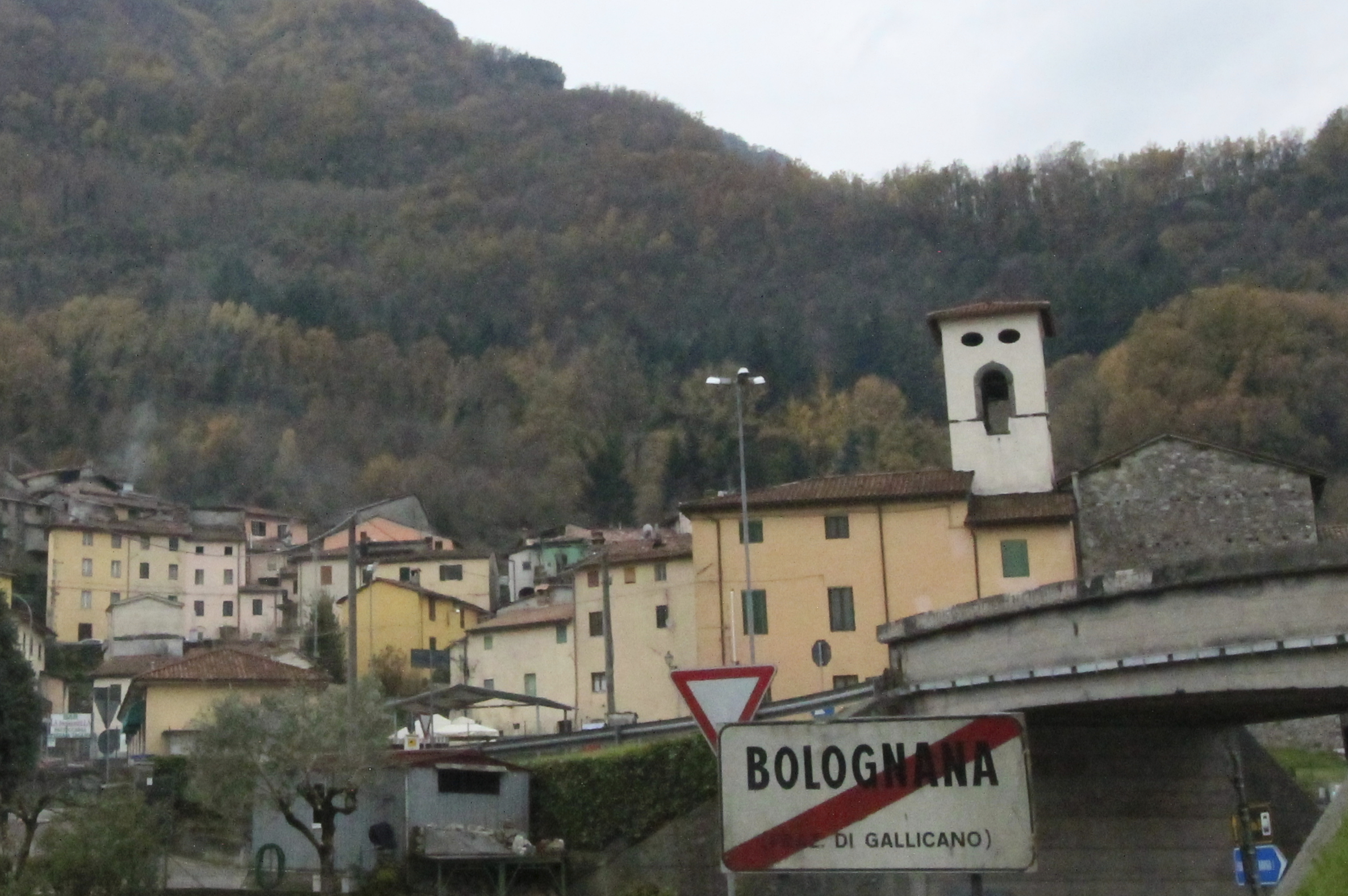 Bolognana, hamlet of Gallicano, Province of Lucca, Tuscany, Italy